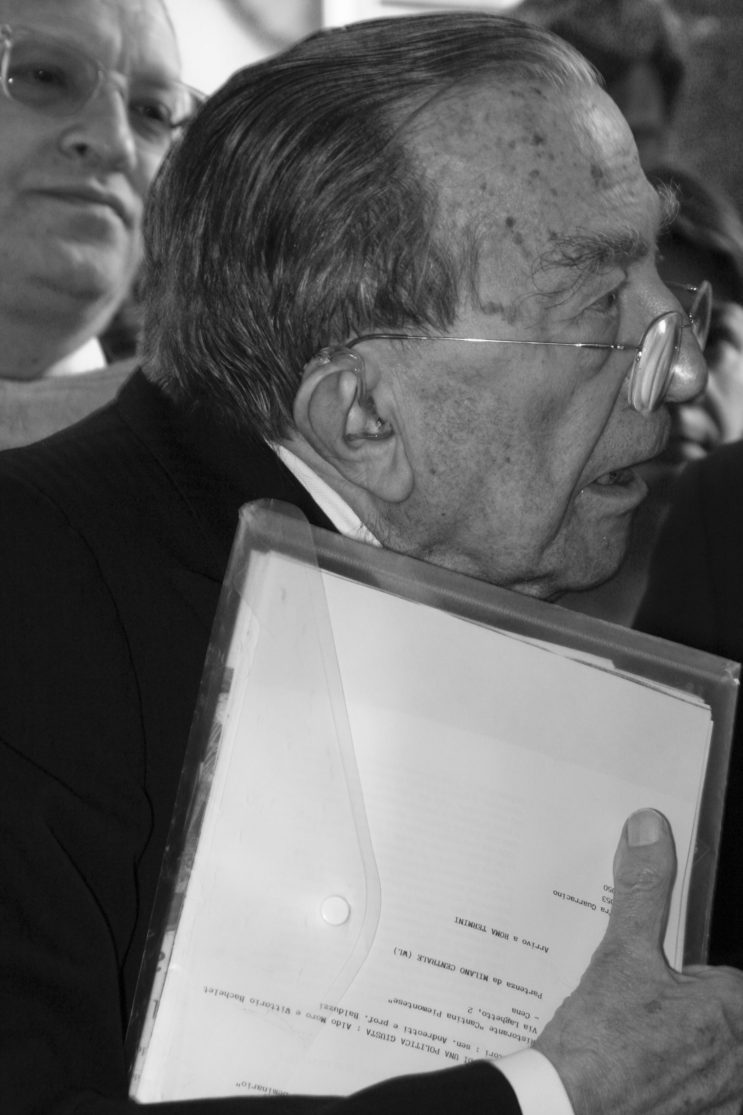 Former PM of Italy, Giulio Andreotti